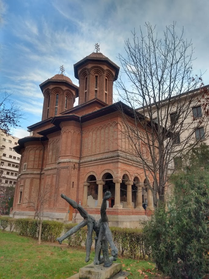 Kretzulescu Church, Bucharest